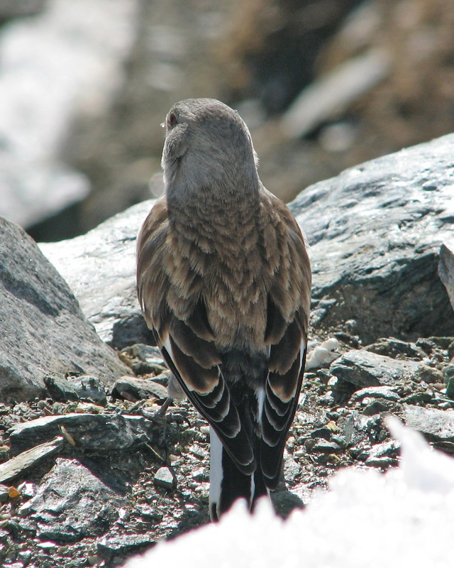 White-winged Snowfinch Montifringilla nivalis seen on the Materhorn at the Swiss- Italian border, Switzerland. Elevation 3000m (aprox) 31st. January 2006 Distribution: IMG_2572